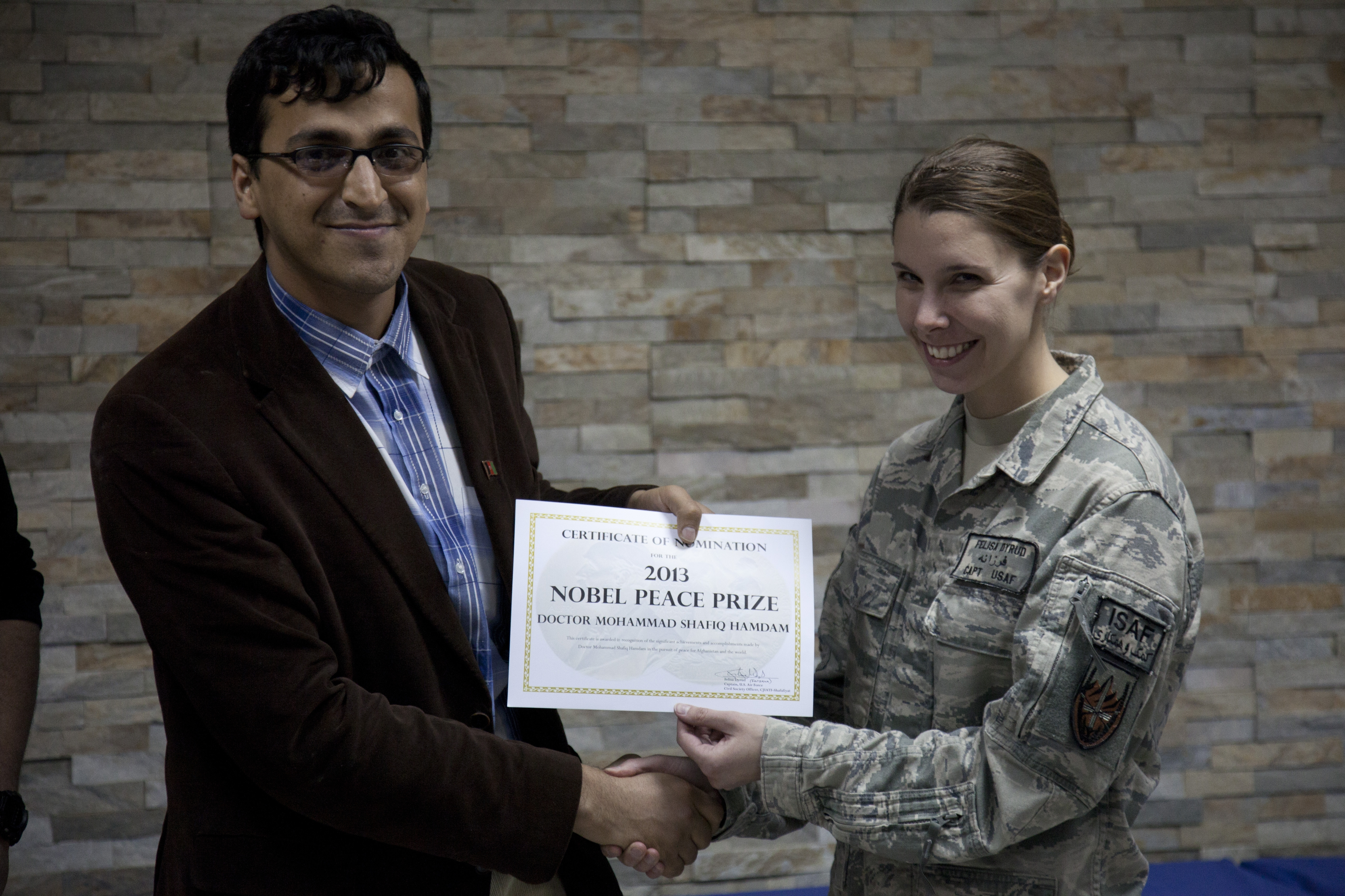 Certificate of Noble Peace Prize Nomination for Dr. Mohammad Shafiq Hamdam